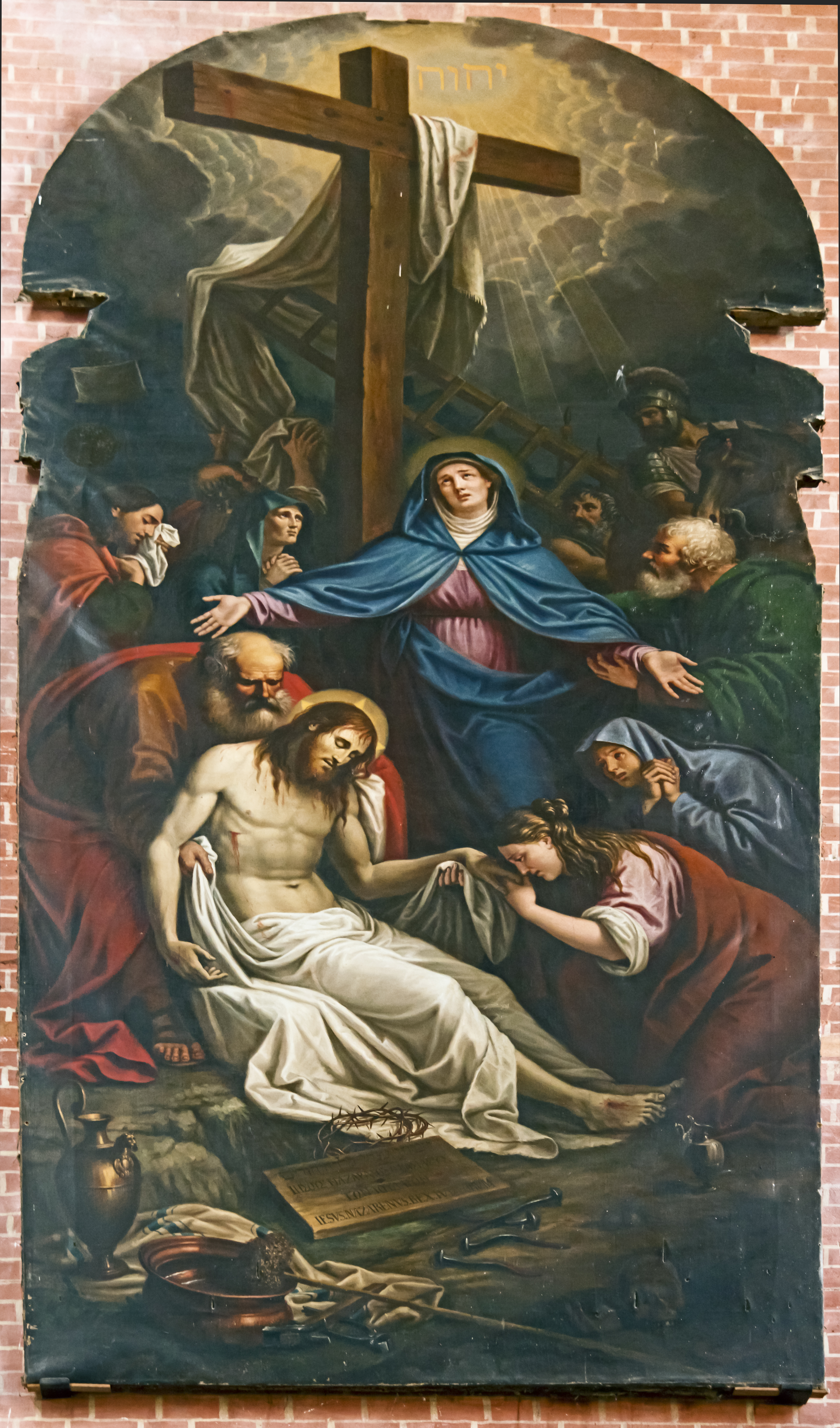 Santi Giovanni e Paolo in Venice. Chapel of Mary Magdalene - The Deposition of Christ by Lattanzio Querena.